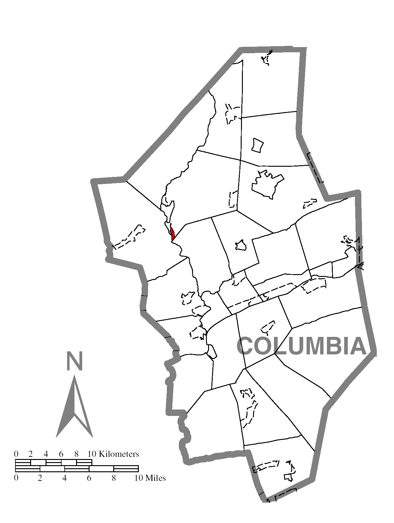 A map of Columbia County showing Eyers Grove, Pennsylvania (alternate) highlighted on the map.